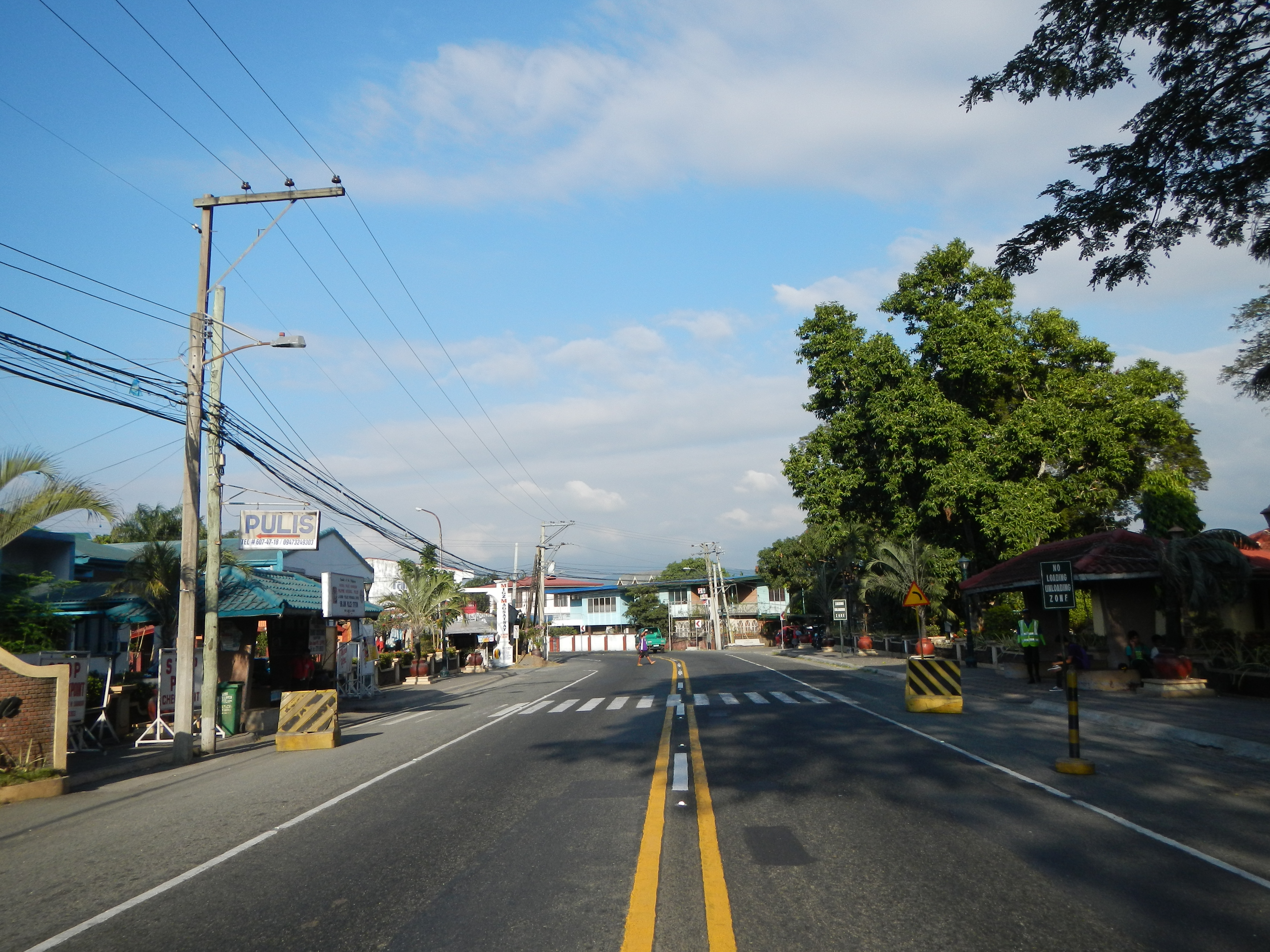 Upload Wizard Panorama photos of -- (general description of landmarks, town, Church, going to dark, sunset conditions) - San Juan, La Union[1] - the Presidencia San Juan La Union or Municipal Hall Complex and Compound in front of the the Church Patio, Glorietta, Plaza and San Juan La Union Municipal Police Station along the National Highway - in front of the Saint John the Baptist Parish Church of San Juan, La Union - of the Roman Catholic Diocese of San Fernando de La Union[2] San Juan (F-1599) 2514 La Union Titular: St. John the Baptist, June 24 former Parish Priest: Rev. Fr. Ignacio N. Asuncion.